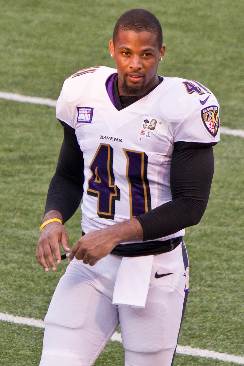 Anthony Levine at Ravens Stadium Practice Aug 2013